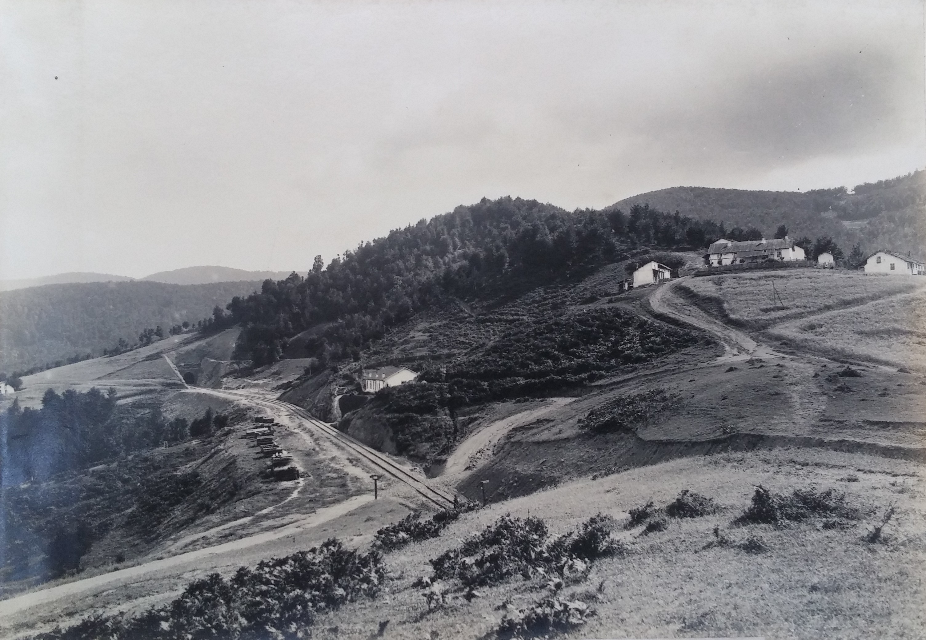 Construction of the railway line Veliko Tarnovo - Tryavna - Borushtitsa. The Bazovets section.